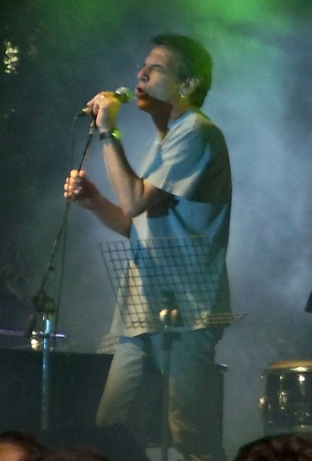 Greek singer-songwriter Dionysis Tsaknis (Διονύσης Τσακνής), July 2007.